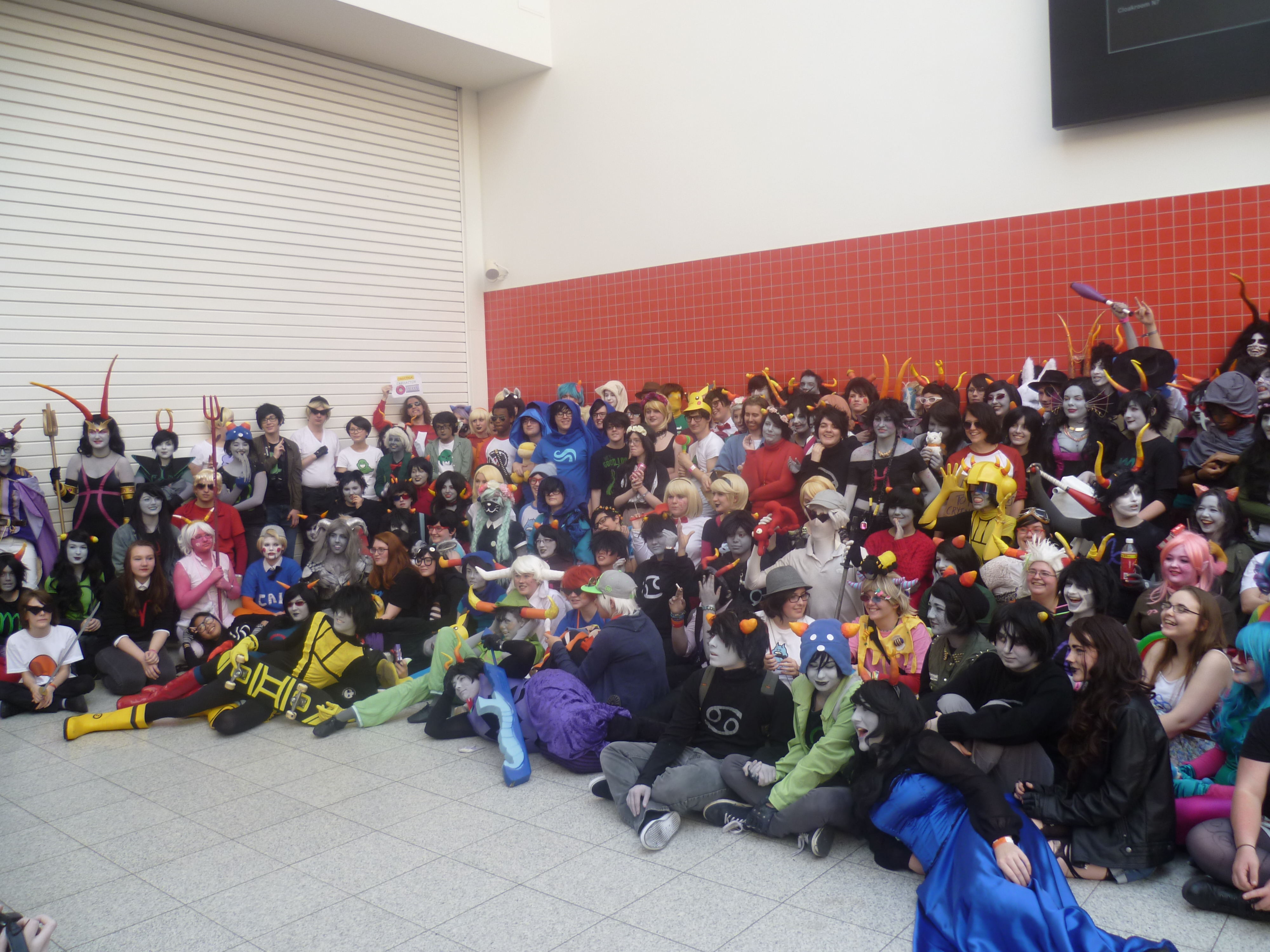 Homestuck Fandom Members at MCM Comic Con October 2014.